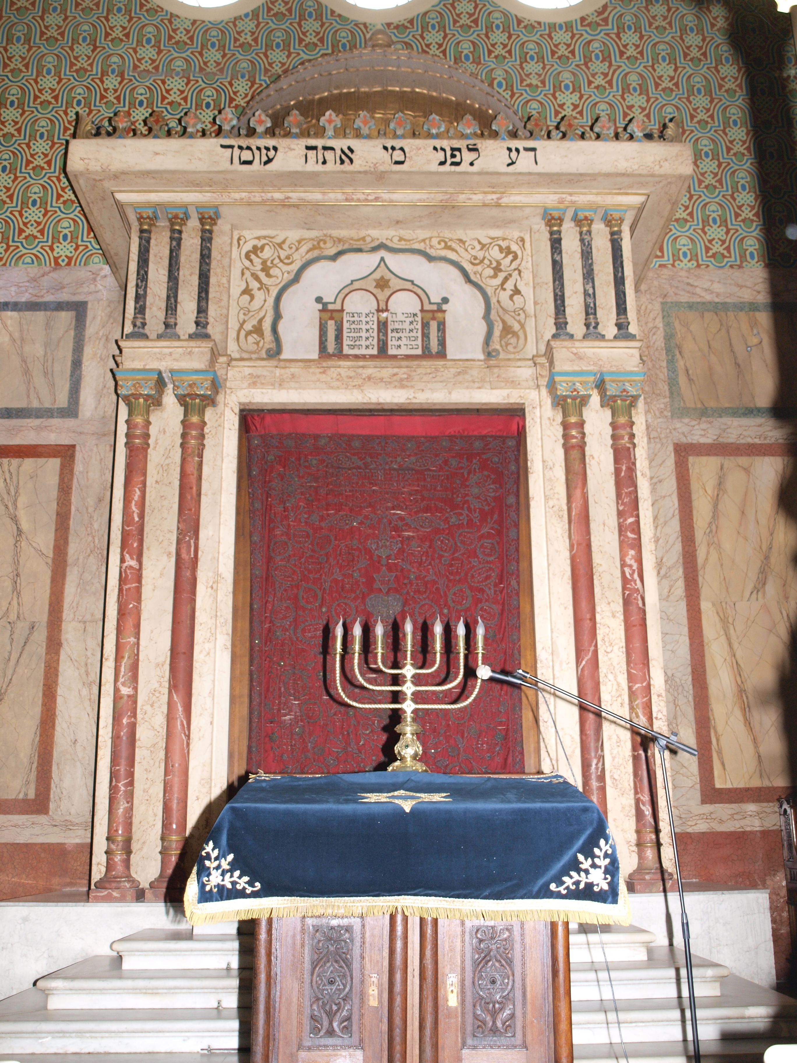 Sofia Synagogue - Torah ark